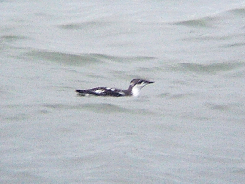 Brachyramphus perdix, winter plumage, Dawlish, Devon, UK, 14 November 2006 (first UK record)